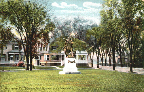 Historic Postcard of Columbus Square, Providence, RI, circa late 19th/early 20th century. View is looking south.